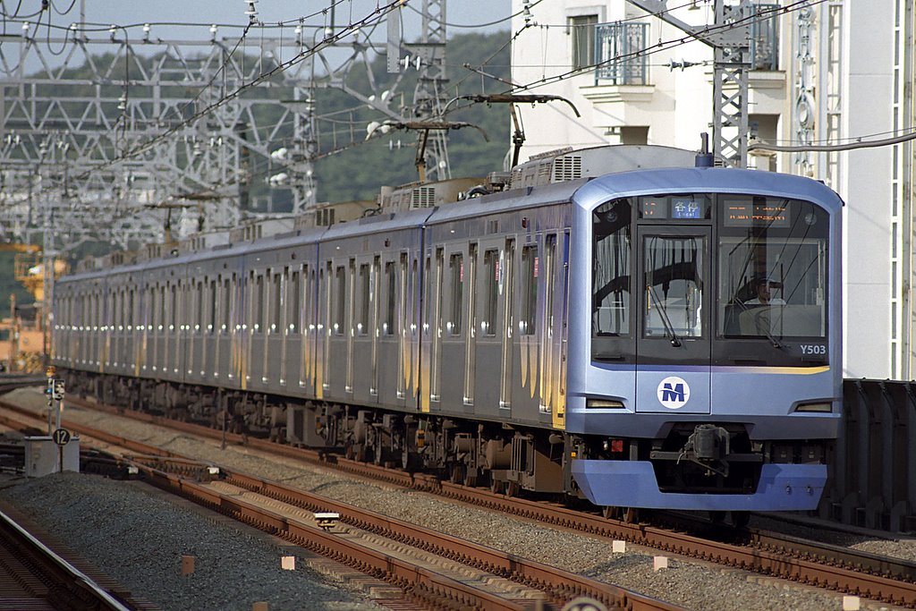 A Yokohama Minatomirai Railway Y500 series train approaching Shin-Maruko Station on the Tōkyū Tōyoko Line